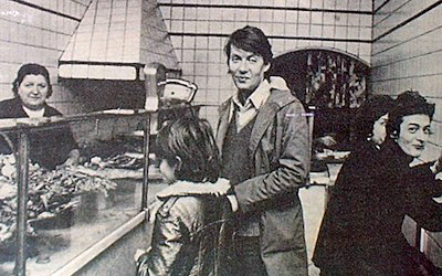 Fabrizio De André and his son Cristiano in a "friggitoria", a typical place of hystorical centre of Genoa (1960s)